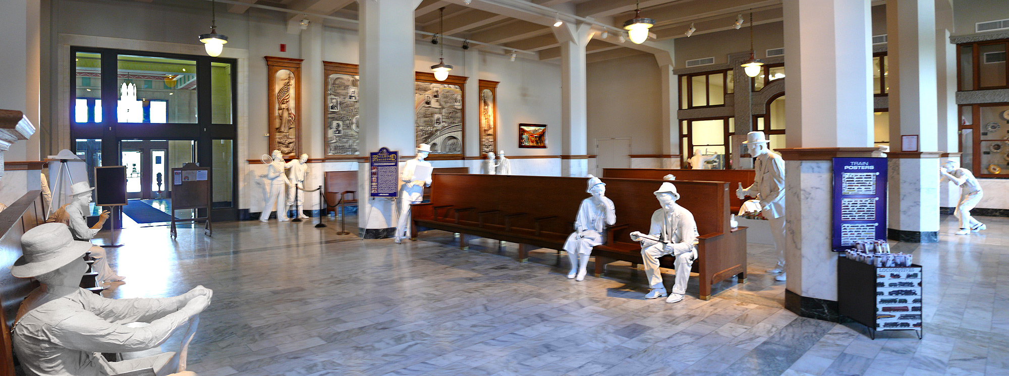 Originally the Santa Fe Union Train Station -- Now a Museum